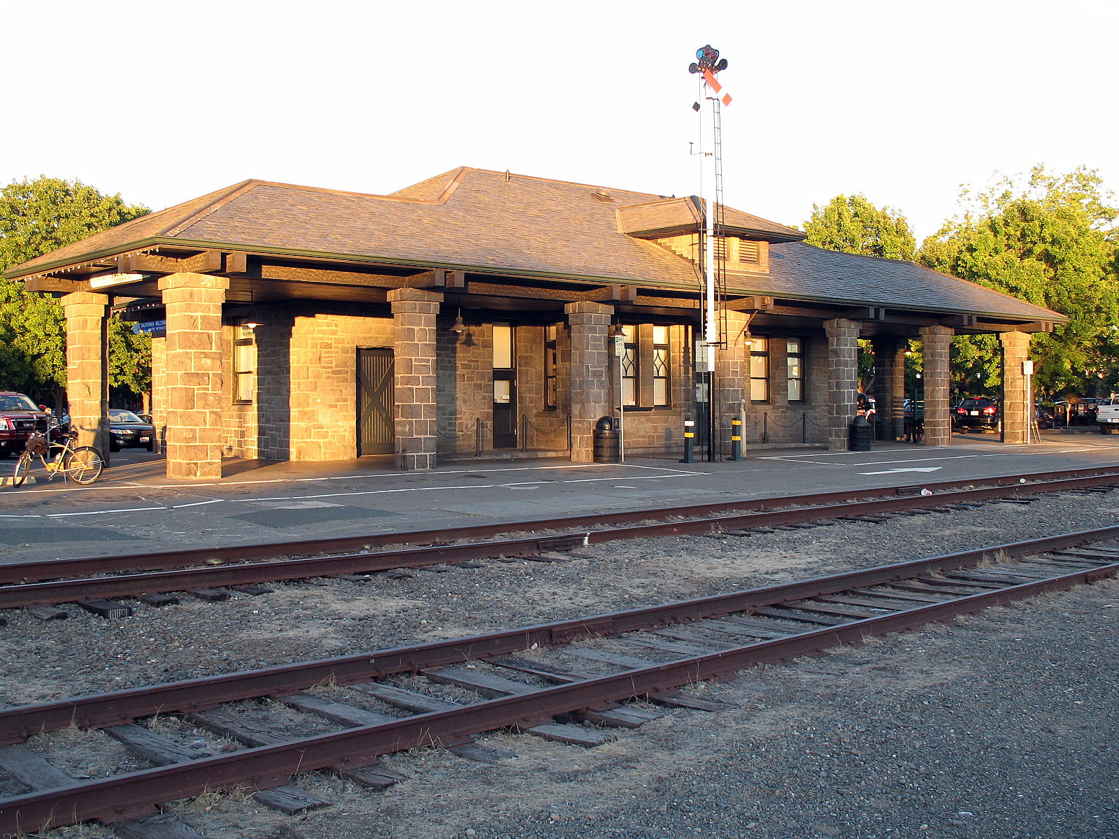 Santa Rosa Depot — a contributing property in the Railroad Square Historic District, in central Santa Rosa, California. View from near 5th St. of the northwest and trackside facades of the 1904 stone depot. On the National Register of Historic Places listings in Sonoma County, California.